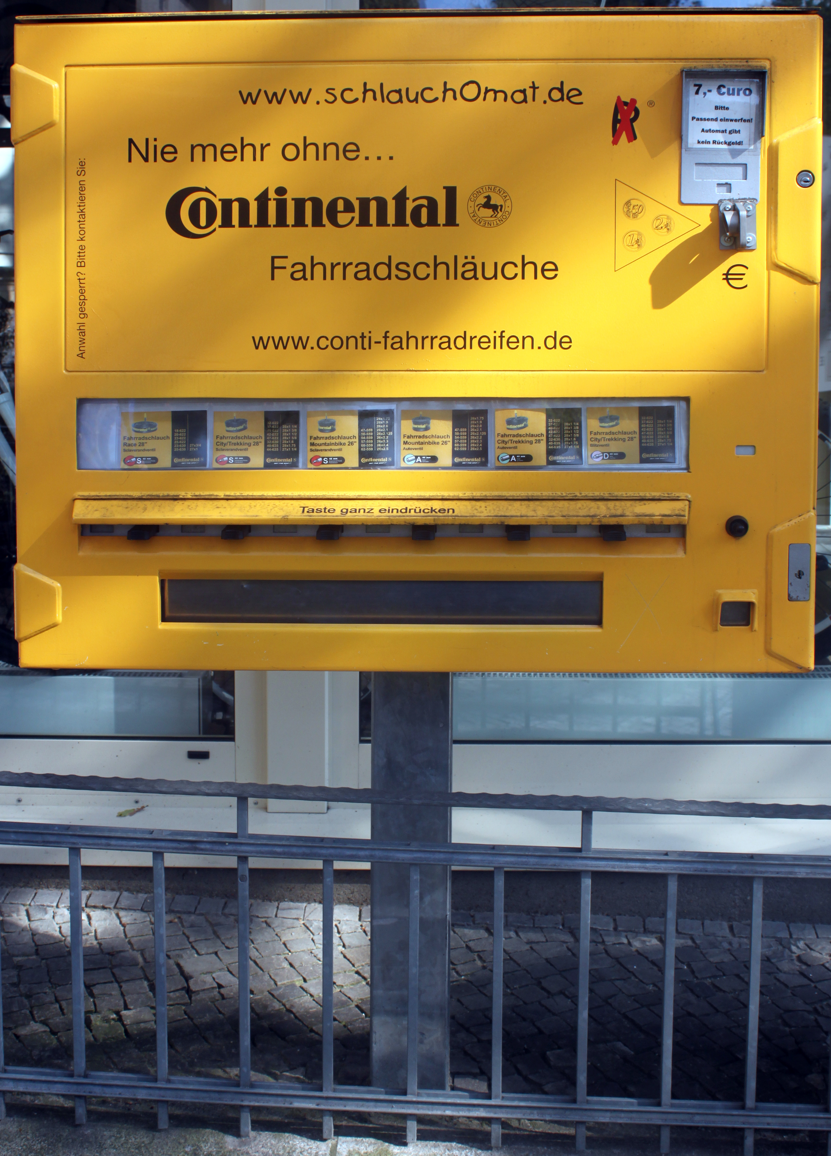 Vending machine for bicycle tubes in Berlin, Germany